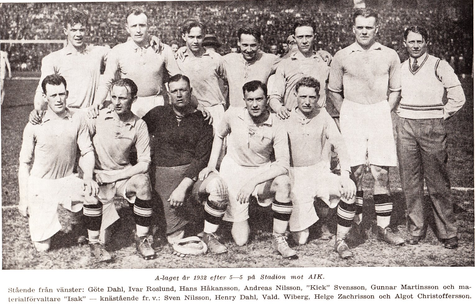 The Malmö FF line-up after playing AIK for the first time in Allsvenskan 1931–32, the match played at Malmö Stadion ended 5–5.